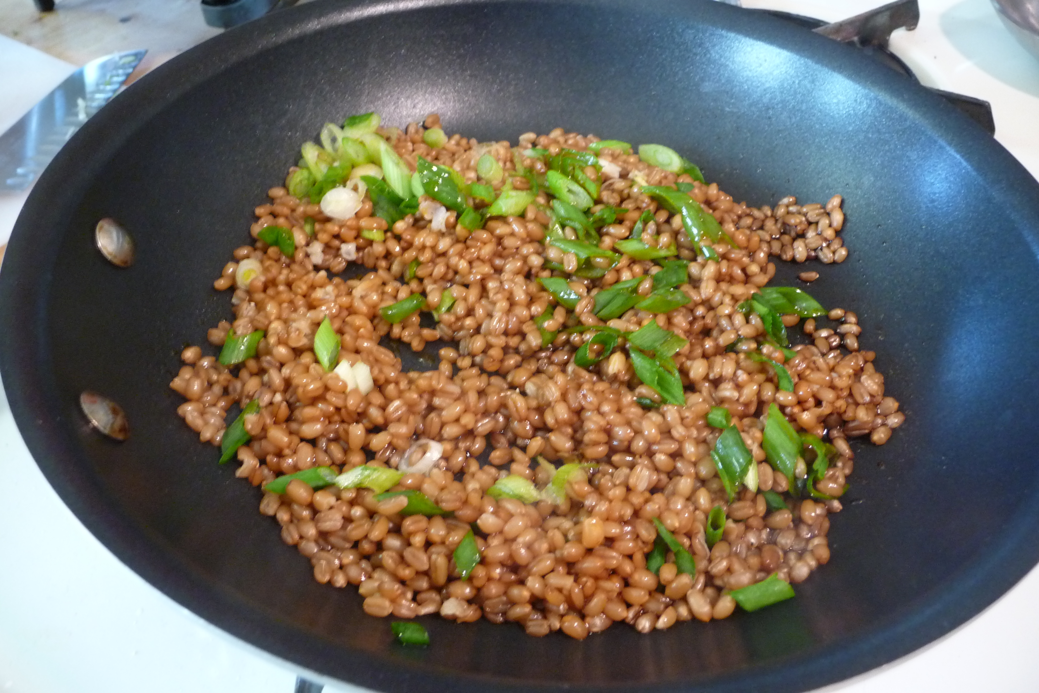 Prepared (cooked) wheatberries (whole, husked kernels of wheat), soaked then sauteed with spring onion